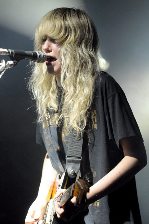 Ladyhawke playing in Perth, November 2009